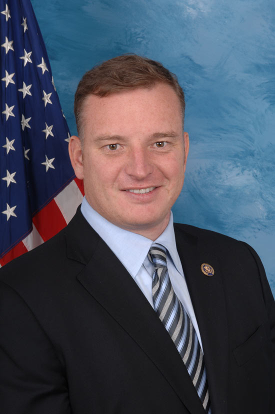 Tom Rooney (politician), member of the United States House of Representatives.